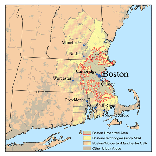 This is a map of the Greater Boston Metro area I made using U.S. Census Bureau data as of 2006. The light gray shading indicates urbanized areas with Greater Boston as defined by urbanized areas outlined in red. The Metropolitan Statistical Area is shown in yellow. The Combined Statistical Area includes the MSA plus those counties that are partially shaded. The Providence metro area was added to the Boston CSA in 2005.